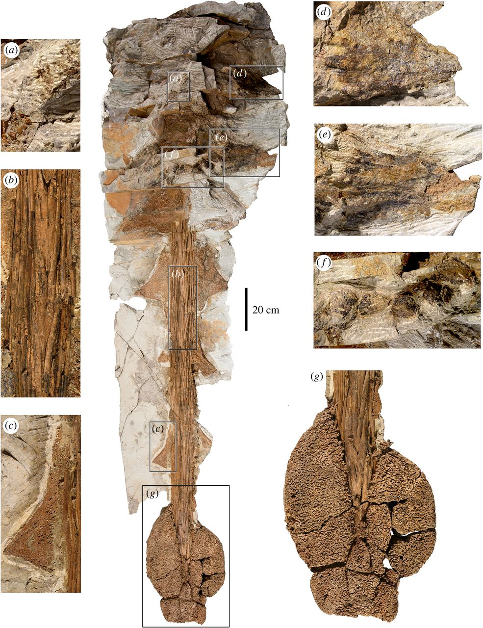 Overview of the tail of Zuul crurivastator ROM 75860 in dorsal view, with insets of detailed anatomy. (a) Field of ossicles in the anterior portion of the tail. (b) Detail of the neural arches of the handle caudal vertebrae, and ossified tendons. (c) Left caudal osteoderm from the seventh pair. (d) Preserved epidermal sheath on the right caudal osteoderm from the second pair. (e) Preserved epidermal sheath on the right caudal osteoderm from the third pair. (f) Epidermal scales lacking bony cores, arranged in a transverse row at the third pair of caudal osteoderms. (g) Close-up of the tail club knob.